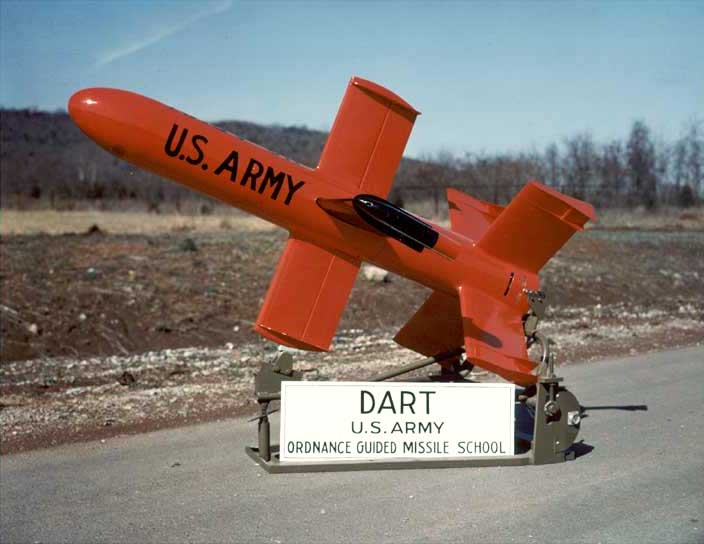 Dart antitank missile